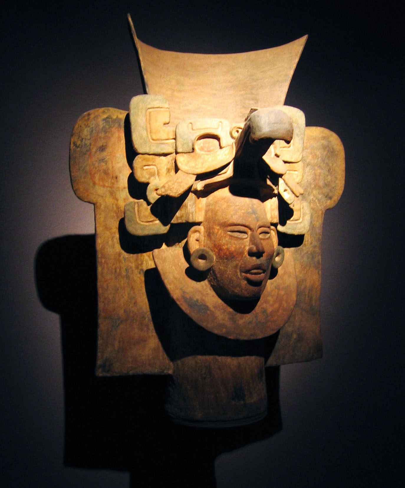 [1] Originally uploaded to: From Monte Albán.